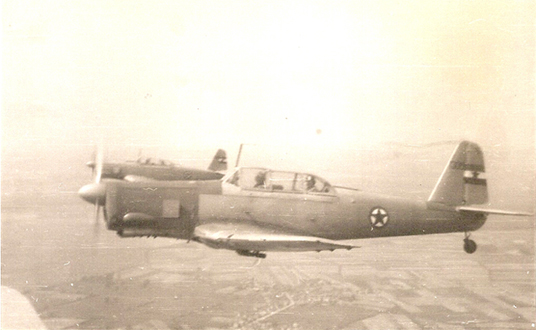 This is an old photo of my dear grandfather Jefrem Vujčić (1932–1996) flying a JNA Utva 213 Vihor airplane (serial number 1305) also known as the Ikarus 213.